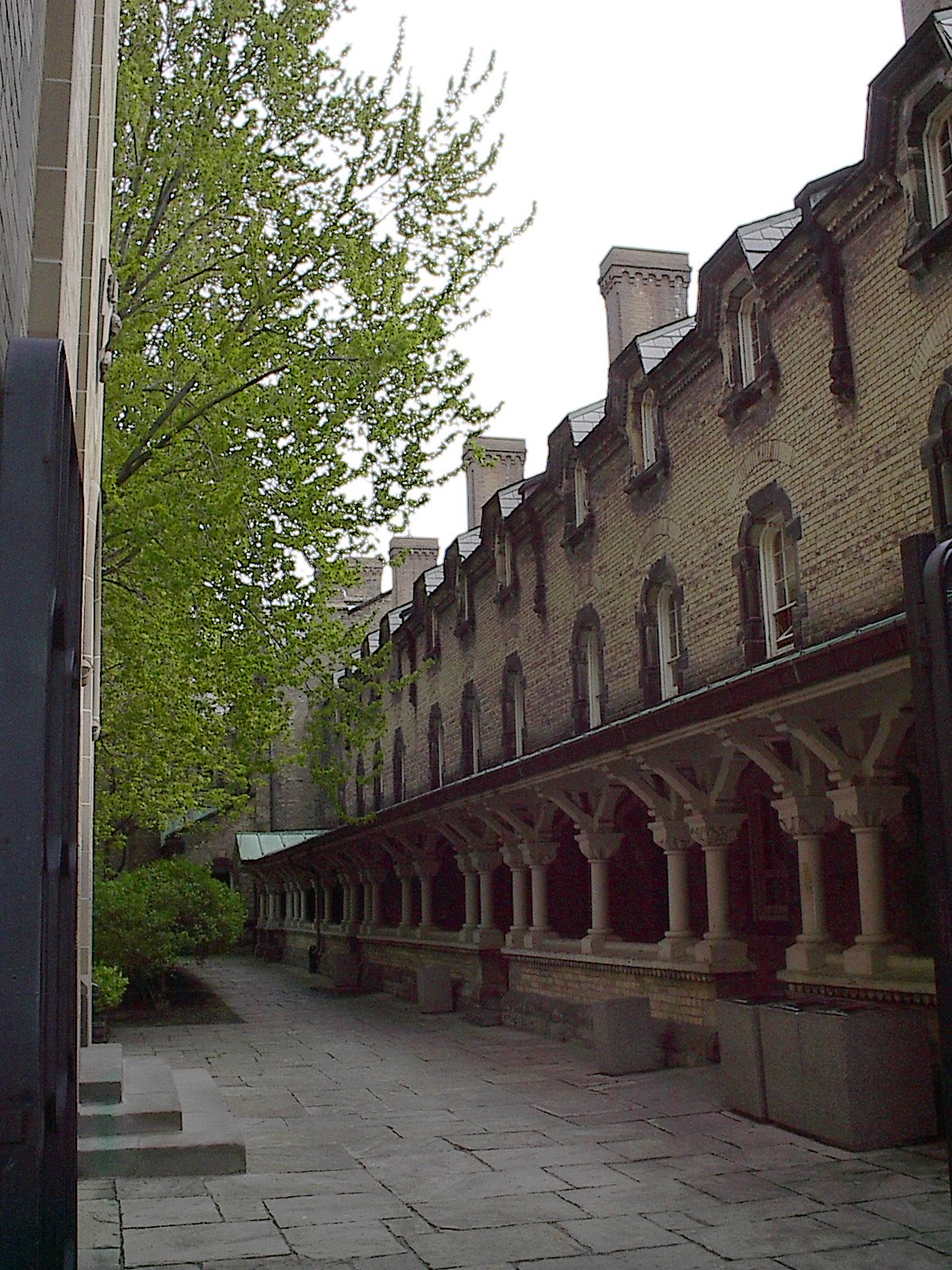 Courtyard of University College, at the University of Toronto, Toronto, Ontario, Canada. 2002.